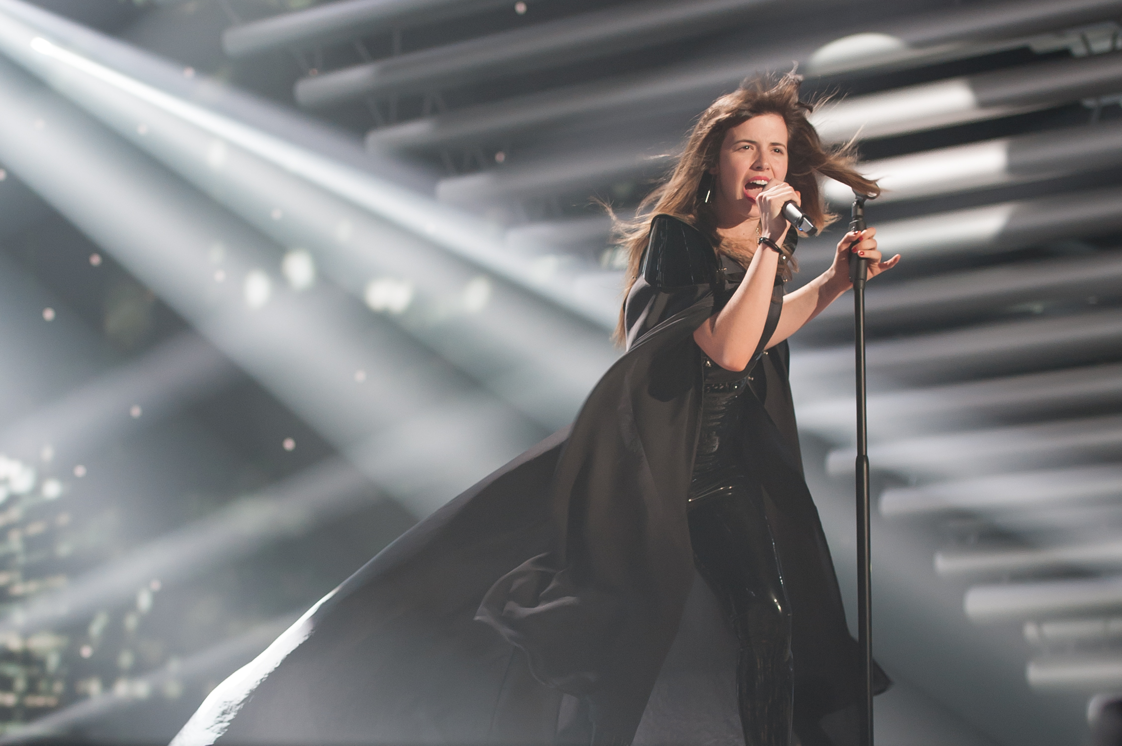 Eurovision Song Contest Vienna 2015: Leonor Andrade